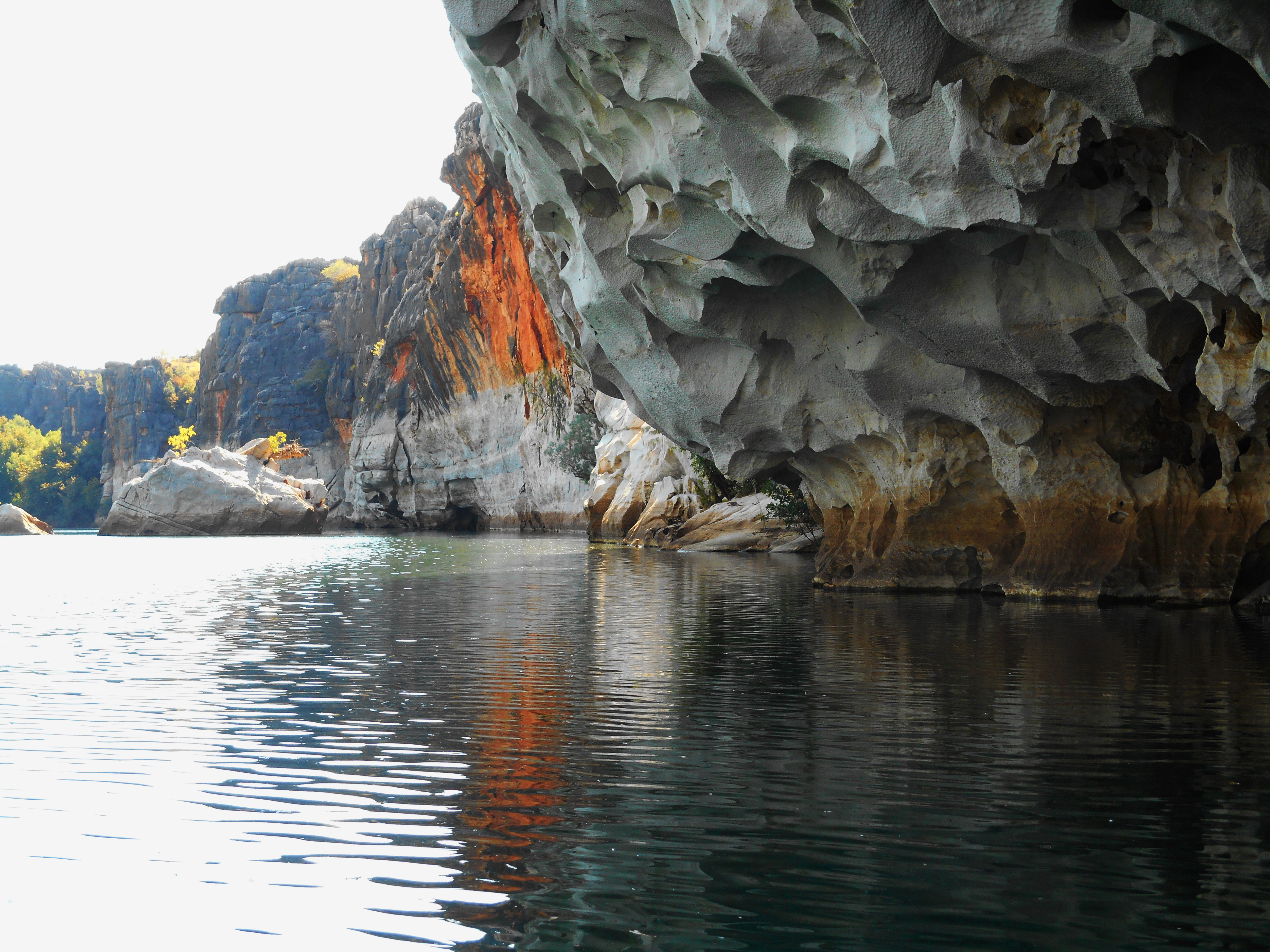 Fitzroy River proposed national park, Fitzroy Crossing, Western Australia